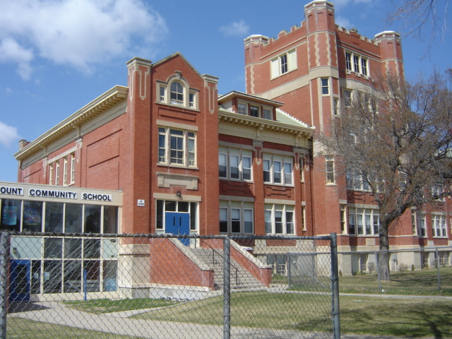 Westmount Schol 411 Avenue J North Core Neighbourhoods SDA, Saskatoon, Saskatchewan